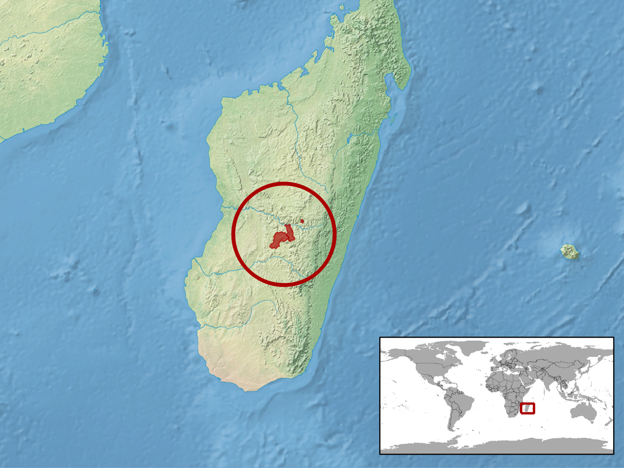 geographic distribution of Lygodactylus arnoulti (Native: Madagascar)